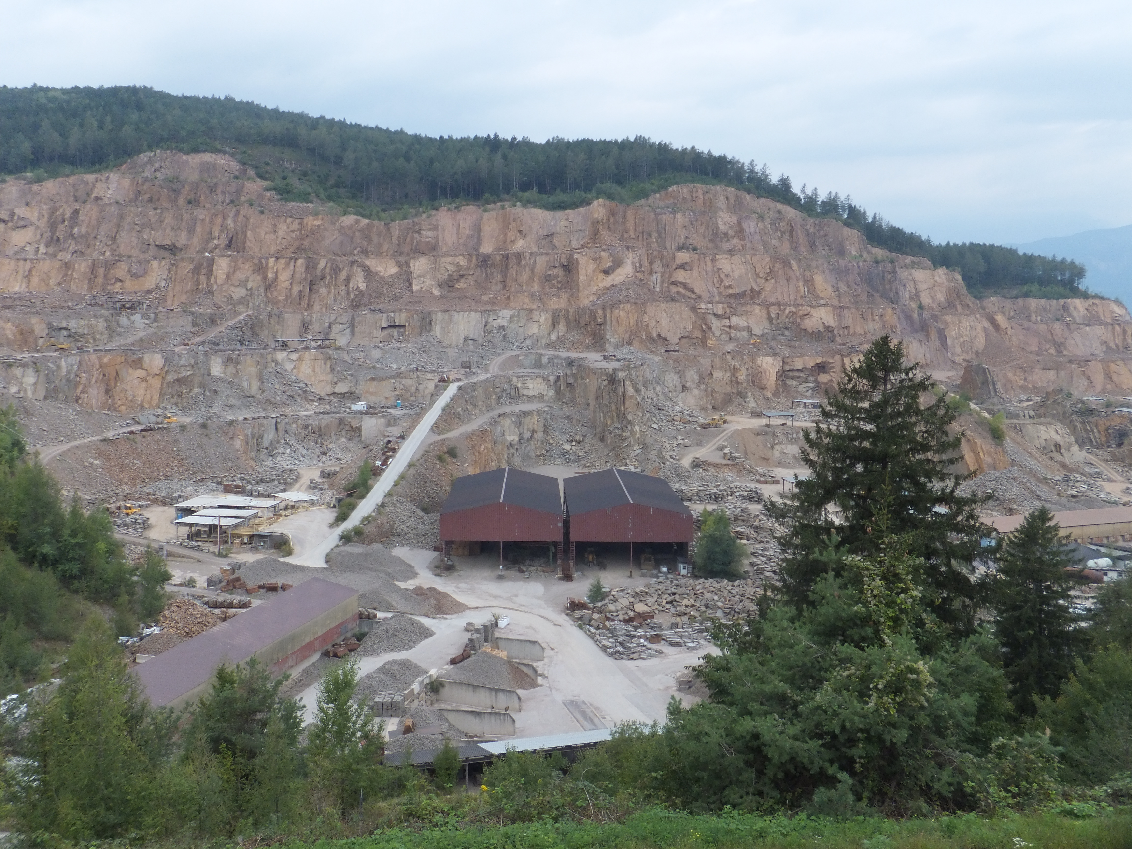 Porphyry quarry above Albiano (Trentino, Italy)